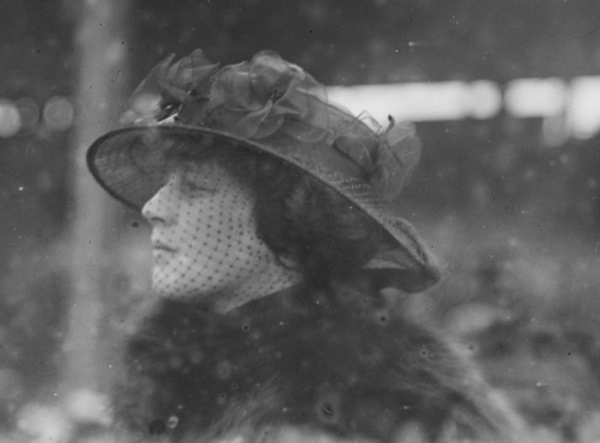 Madeleine Astor 1915